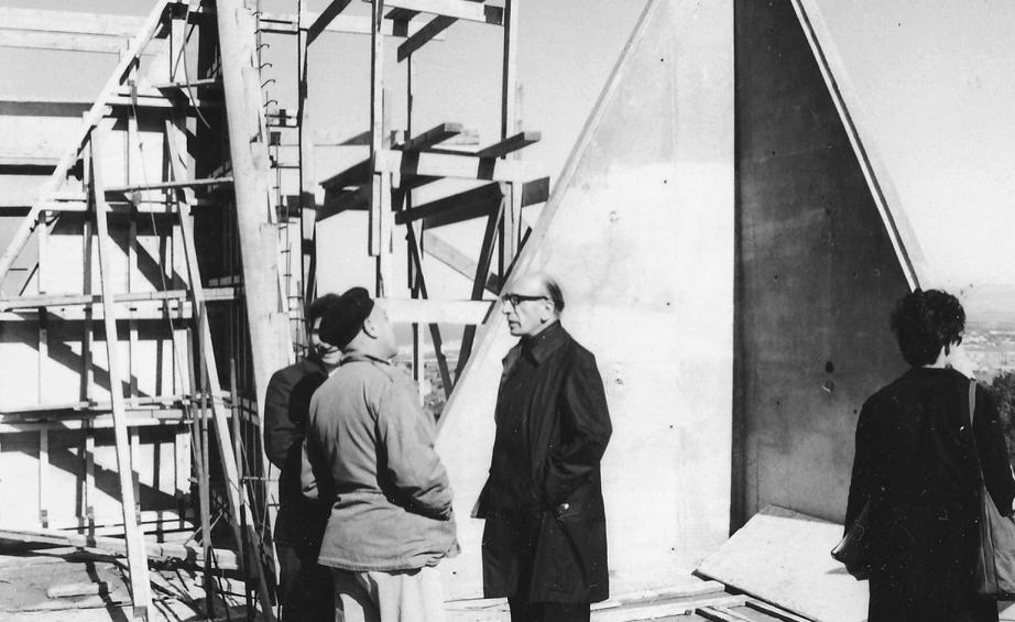 Alfred Neumann at the construction site of Danciger Laboratories, Haifa, Israel